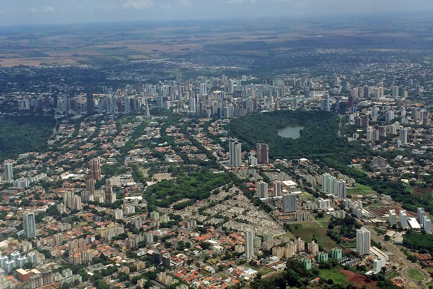 Aerial view downtown Maringa, Brazil